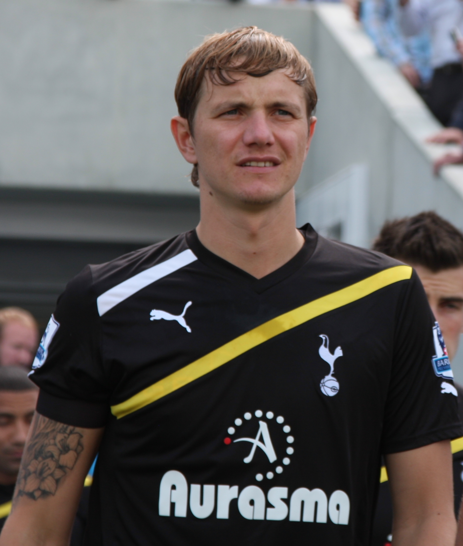 Roman Pavlyuchenko as a player of Tottenham Hotspur